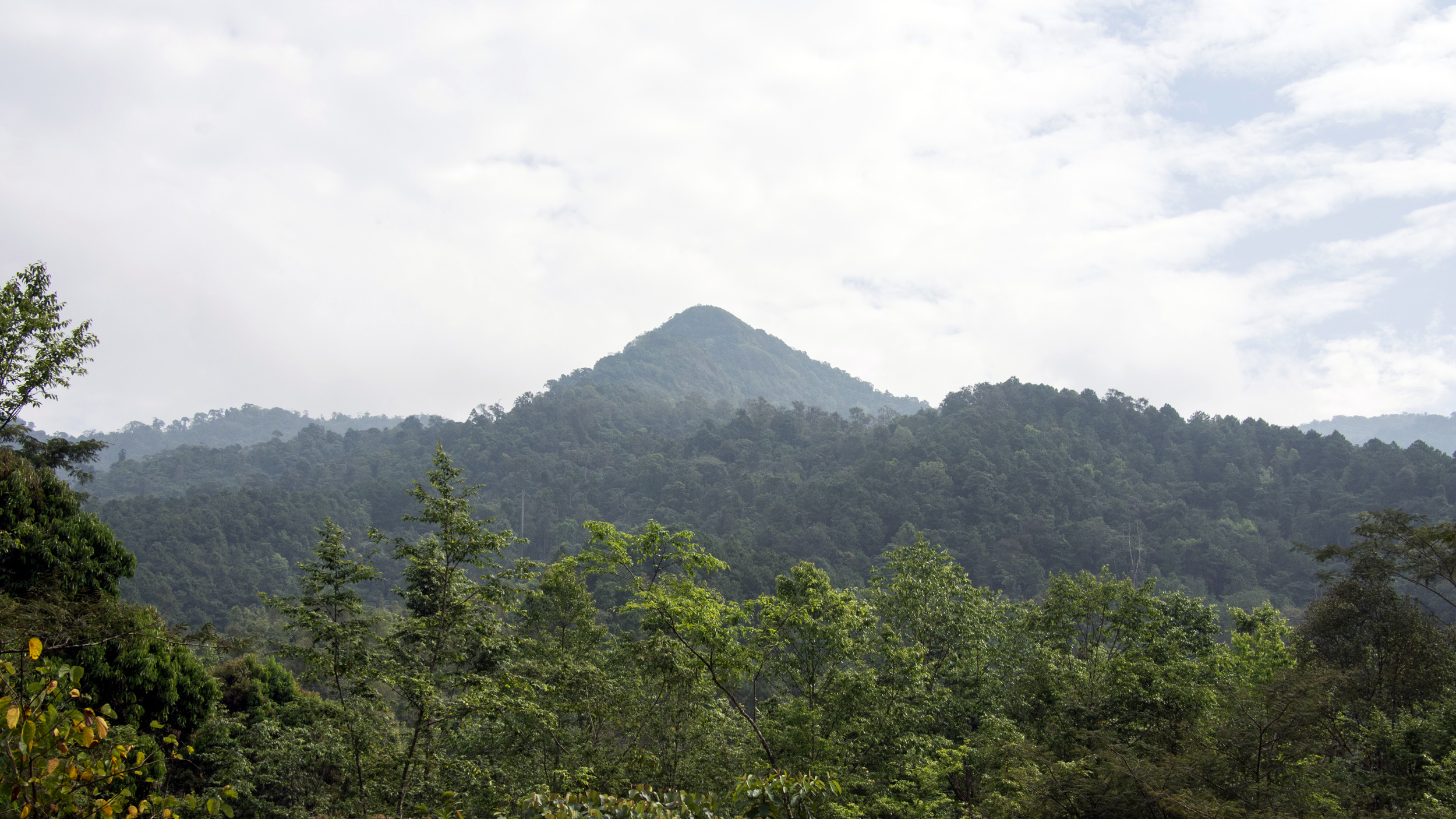 The top of Doi Phu Kha as seen from the Doi Phu Kha National Park HQ. The summit lies in Pua District.